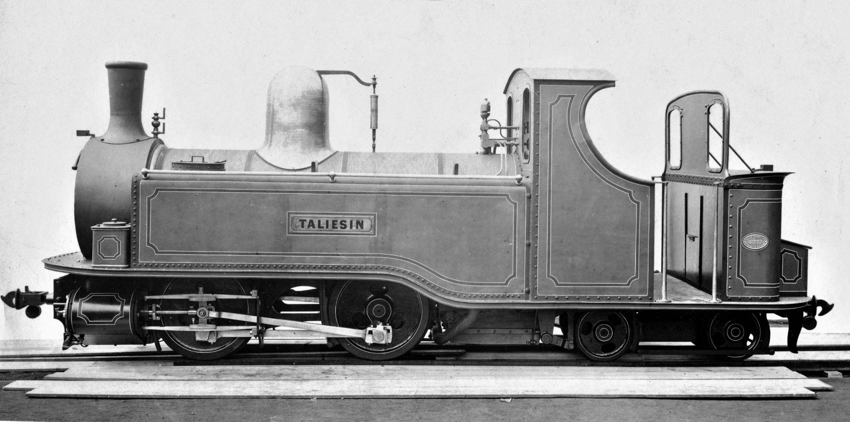 Ffestinog Railway single Fairlie Taliesin, Vulcan Foundry works photograph